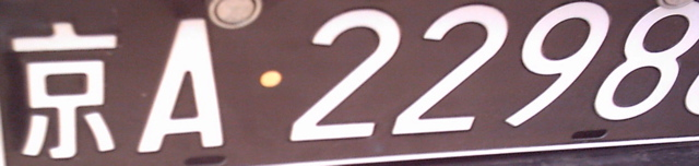 PRC Black Licence Plate. DF08 2004 image. The last numbers have been cropped, to protect the identity of the vehicle owner or driver.